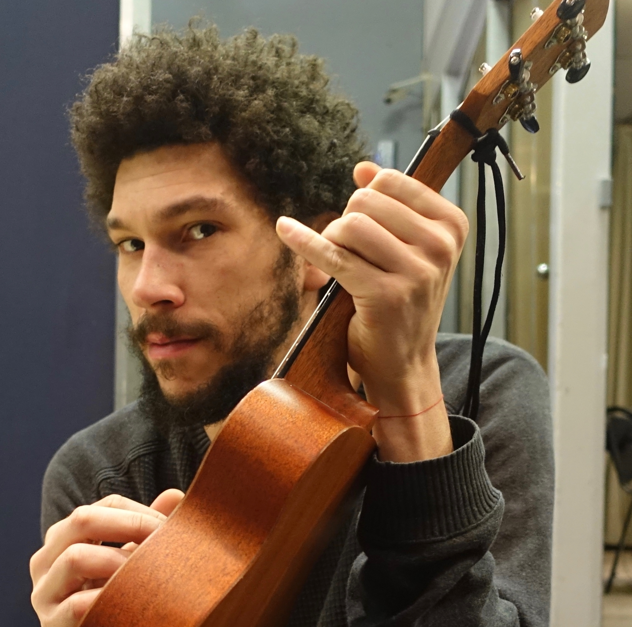 Joel Fry during rehearsals for Radio 4's live interactive drama 'Hashtag Love' at BBC Cardiff on 14 February 2017.